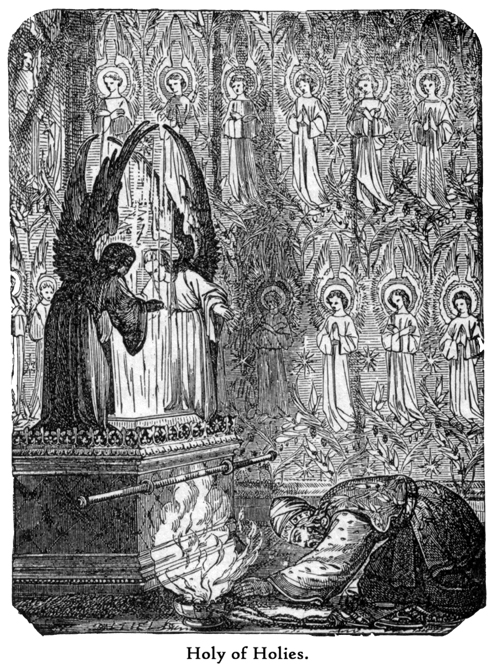 The Holy of Holies, as illustrated in The History of the Church of God from the Creation to the Present Day: Part I - Bible History, by Rev. B. J. Spalding, copyright 1883 by The Catholic Publication Society Co. Illustrator unknown.